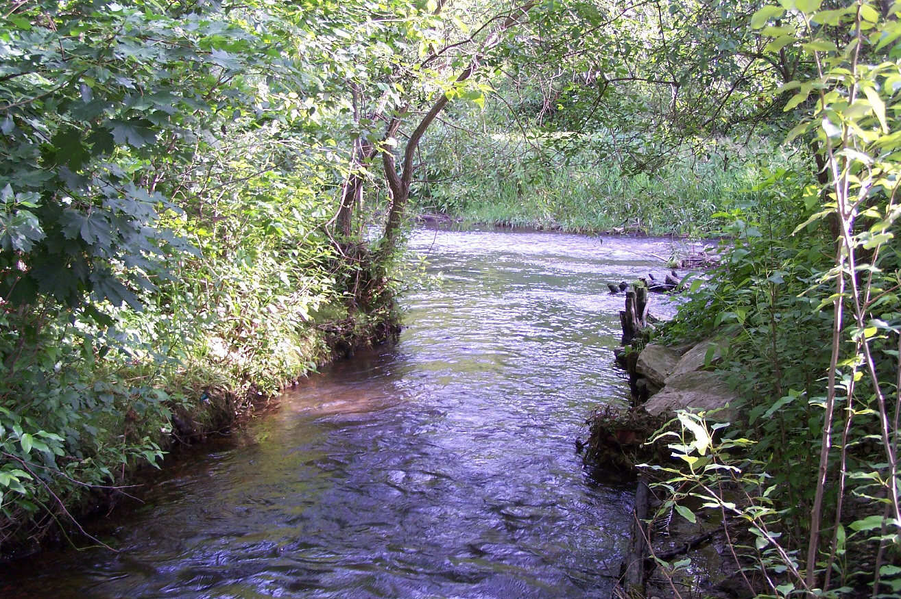 The confluence of the Erbstrom in Hörsel river.